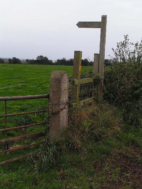 Footpath near Edderside. One of the few features of note in this square which consists largely of flat, rough grazing.